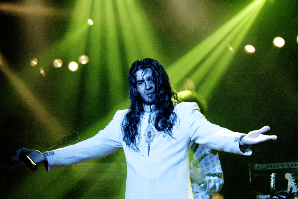 Bilal (Lebanese singer) in a live performance